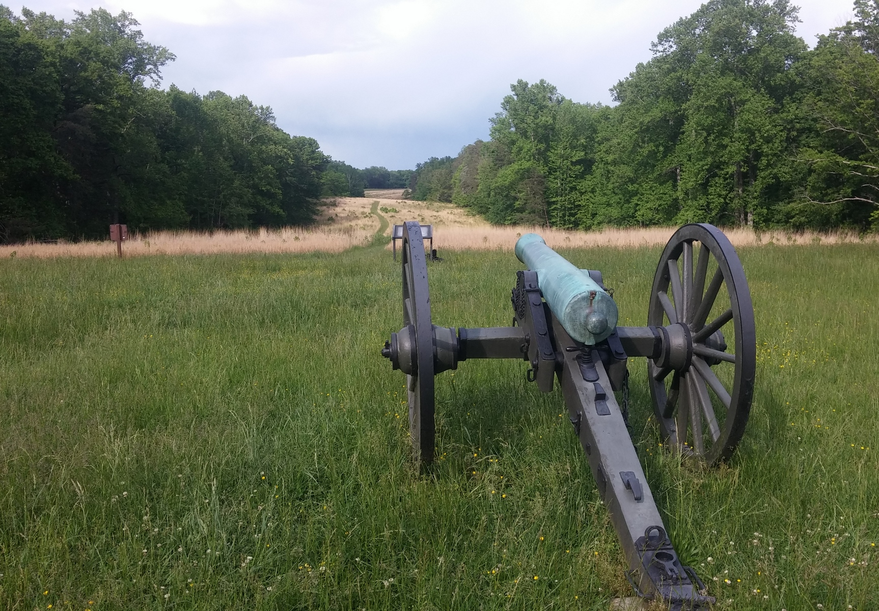 Confederate guns on Hazel Grove